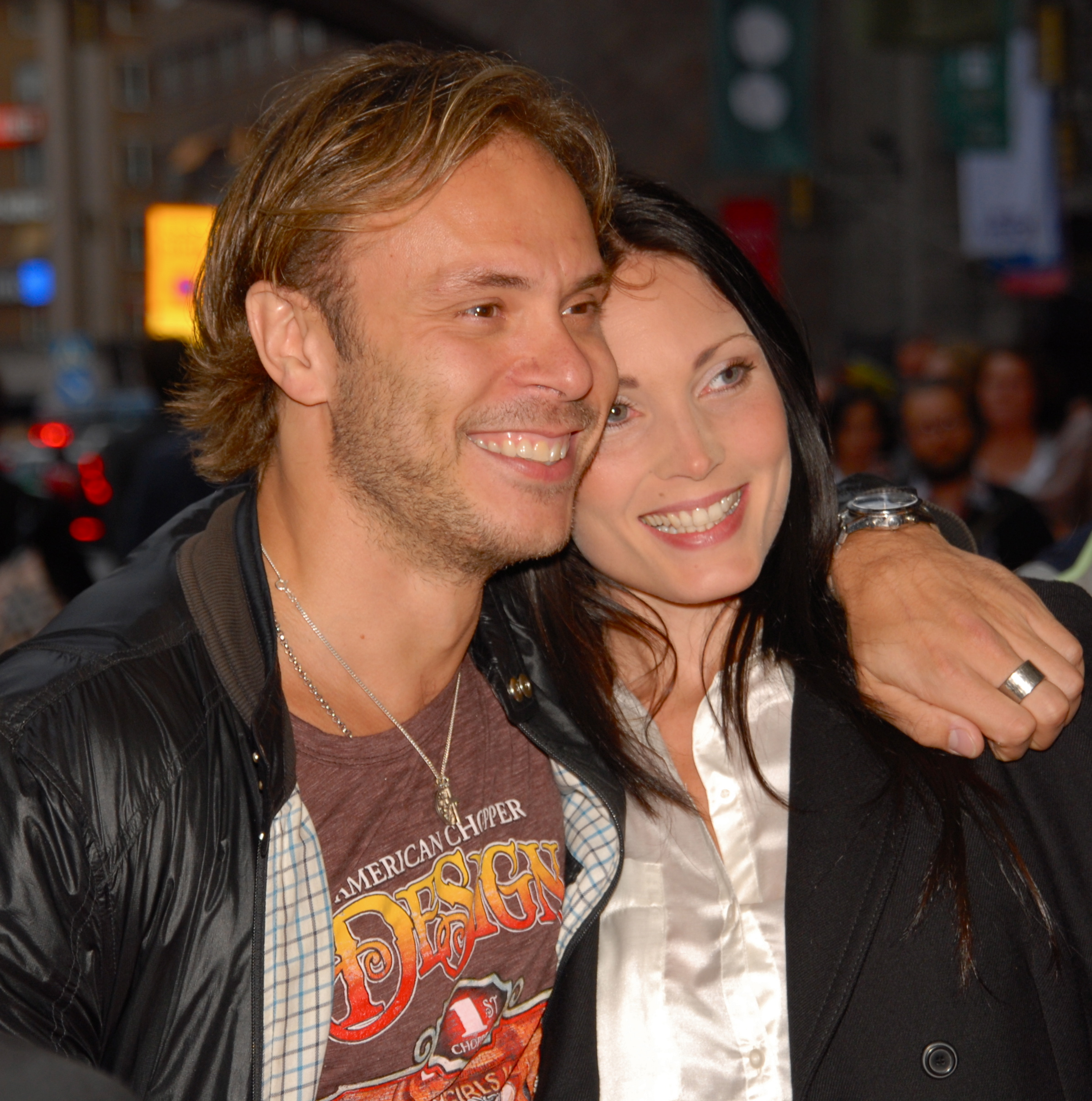 Björn Bengtsson and Sandra Lindblom in Stockholm in September 2011.